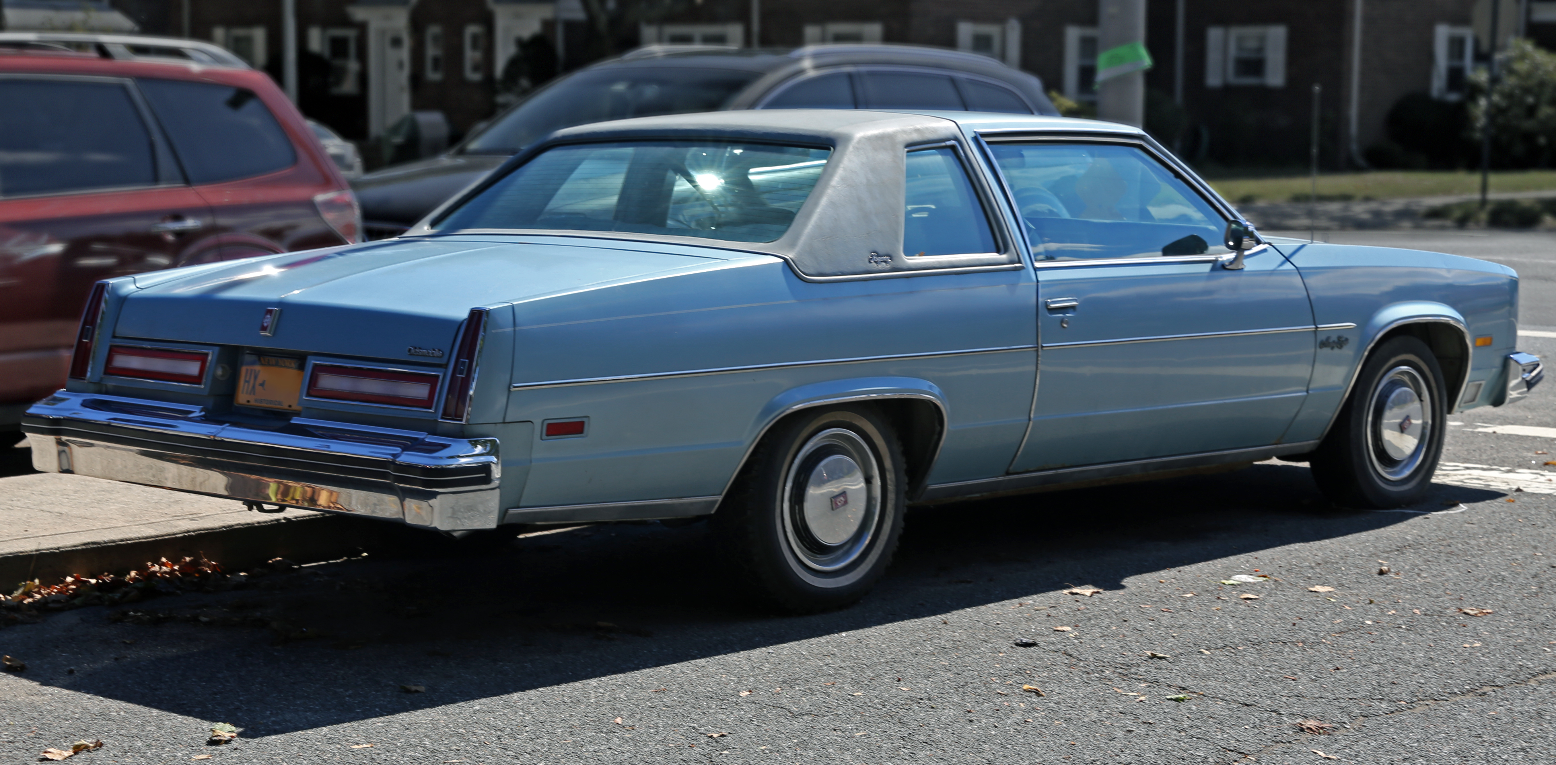 1977 Oldsmobile 98 Regency hardtop coupe. This has a 350ci 4-barrel V8 and was assembled in Linden, NJ.